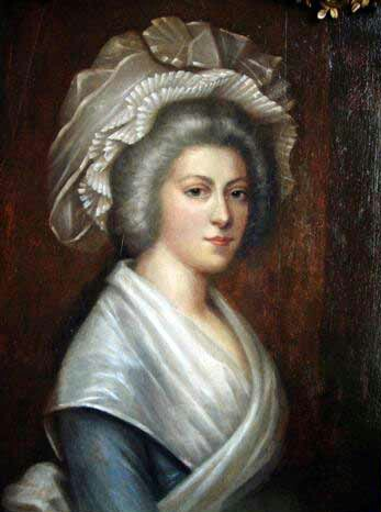 Portrait of Madame Elisabeth at the Temple